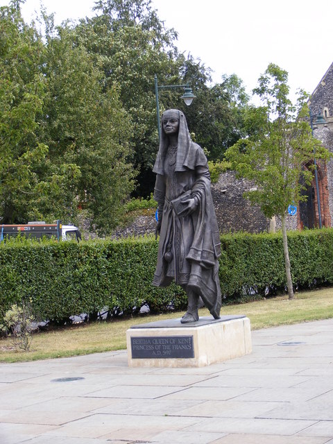 Queen Bertha The statue in Lady Wootton's Gardens is of the Queen of Kent. She was Princess of the Franks and the christian daughter of Charibert King of Paris. The sculpture by Stephen Melton in 2004, unveiled 2006, source: King Ethelbert and Queen Bertha